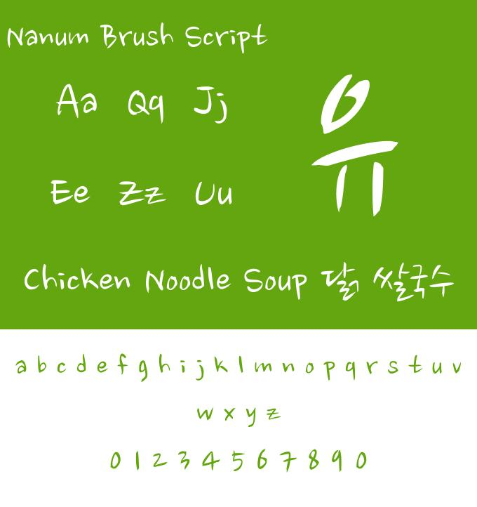 Sample of the Nanum Pen Script typeface. Chicken Noodle Soup is a very popular K-pop song.